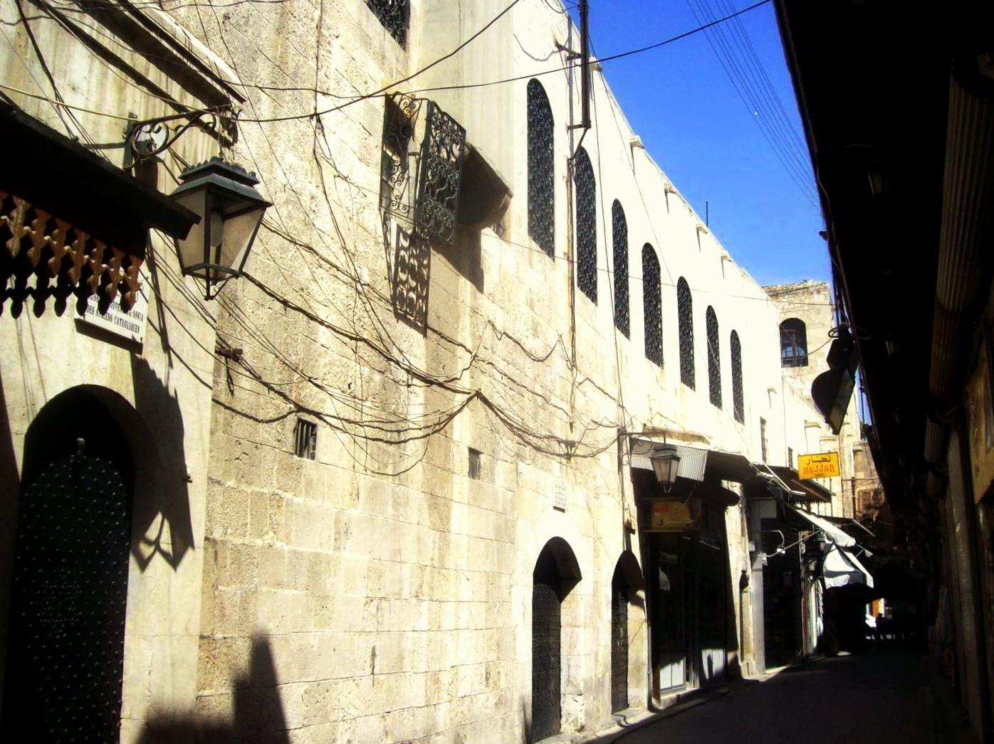 The exterior of Mar Assia al-Hakim Syriac Catholic church, Aleppo.